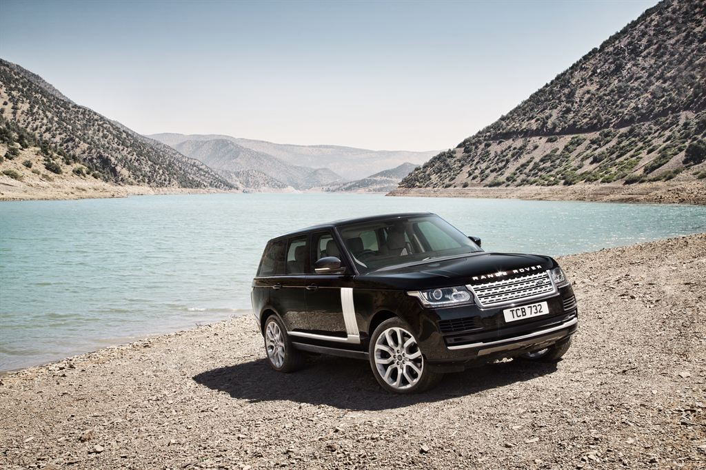 All-New Range Rover - Location Shot